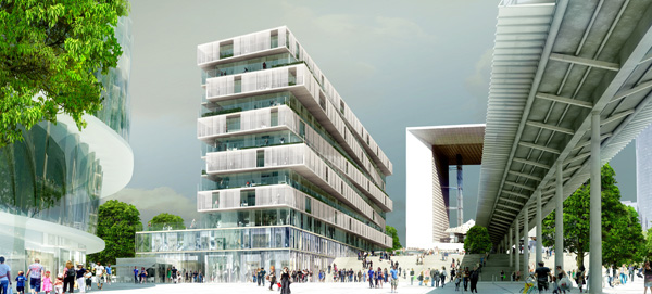 Cimputer generated image of Residential Complex in La Defense Nanterre designed by Farshid Moussavi Architecture